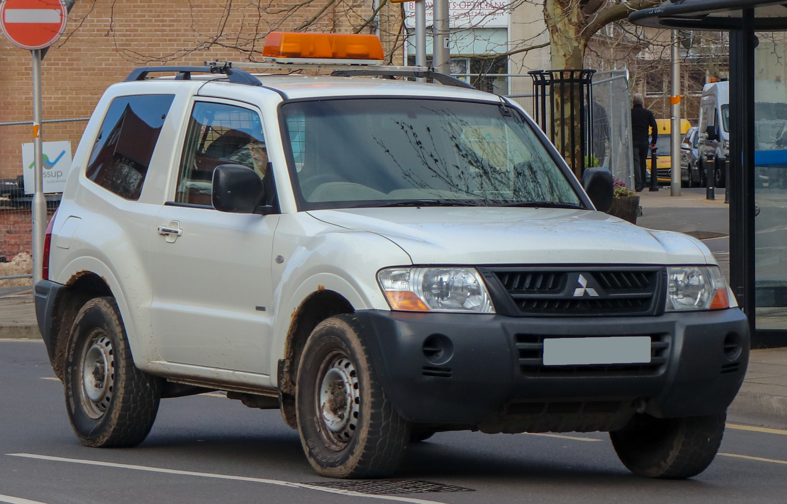 2006 Mitsubishi Shogun Di-D 4Work SWB 3.2 Taken in Warwick